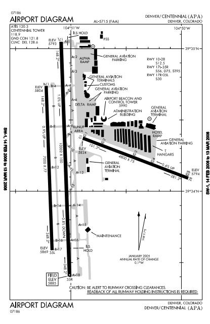 FAA airport diagram for Centennial Airport (APA) in Centennial, Colorado, United States.